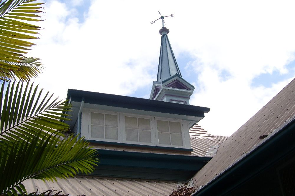 Bundaberg Central State School (2006)